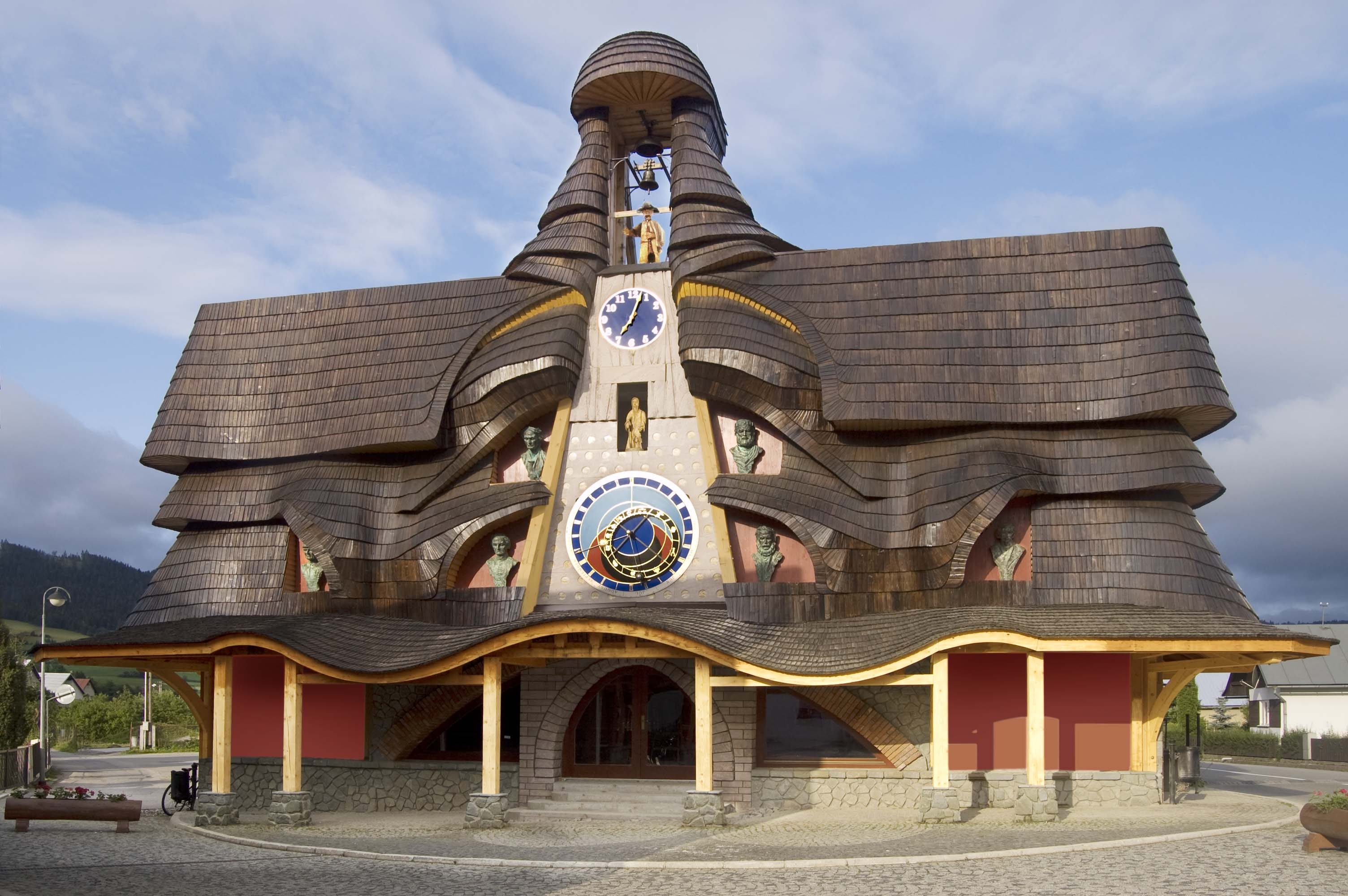 The Slovak Horologe located in northern Slovakian village of Stara Bystrica is dominating the St. Michael Archangel Square, designed by Viliam Loviska as inspiration of Saint Virgin Mary